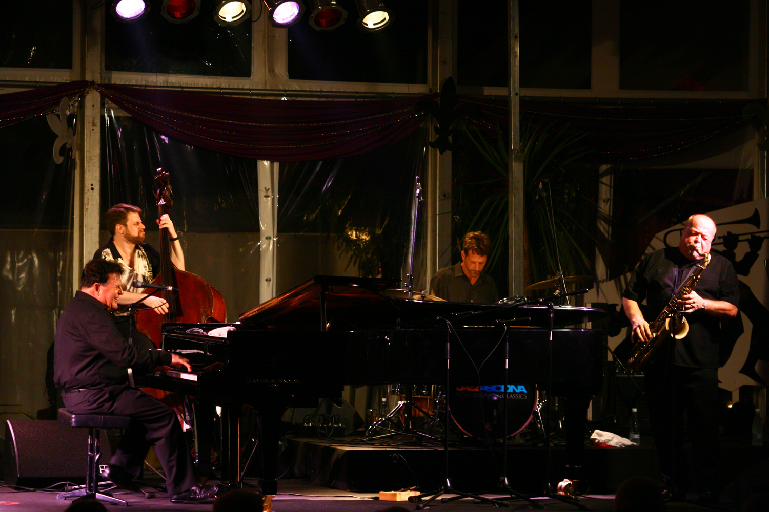 Al Copley in performance at the Ascona Jazz Festival in Ascona, Switzerland.